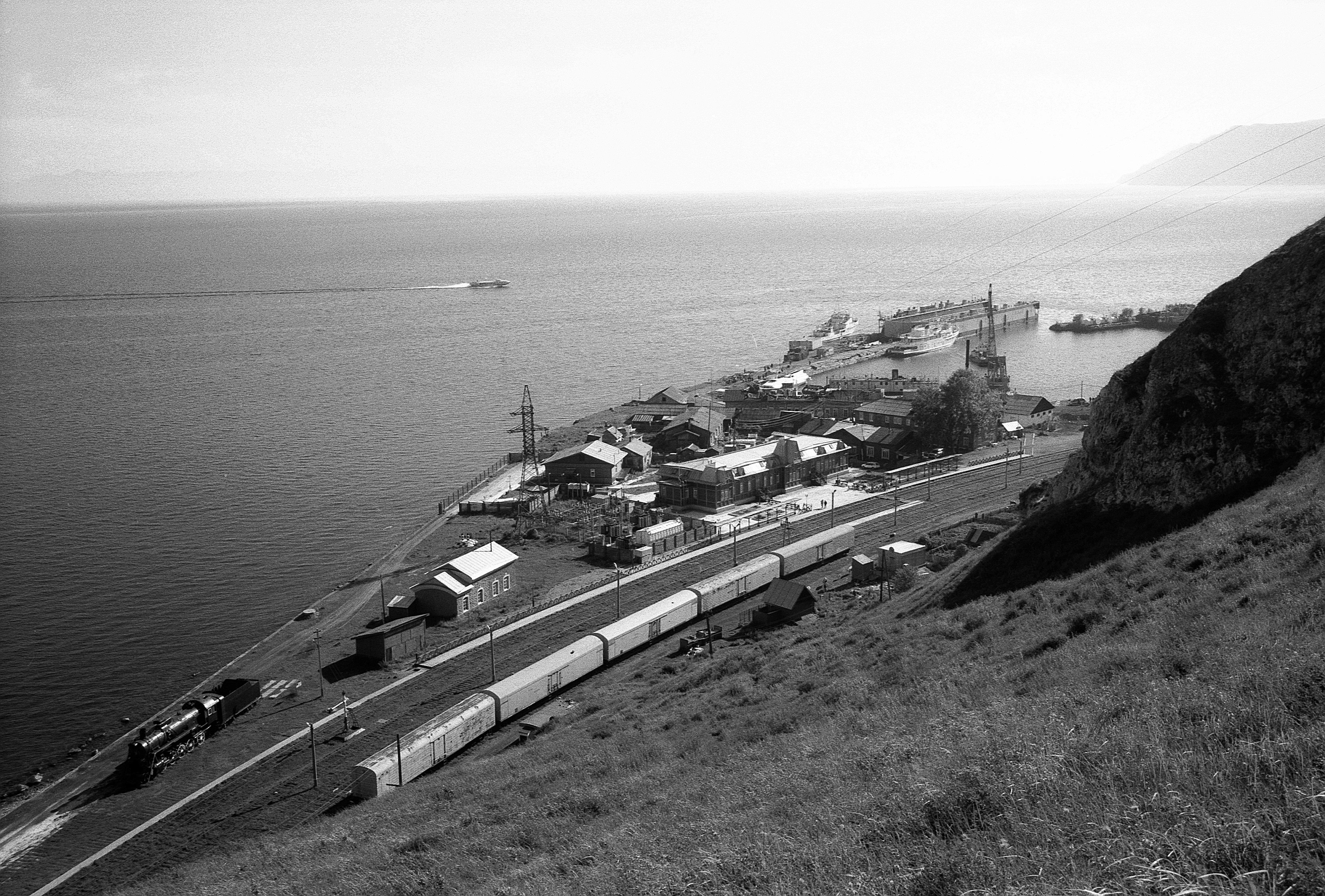 Baykal, July 2010.